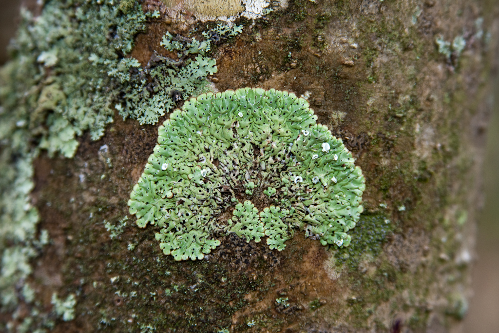 The lichen Menegazzia subsimilis (H. Magn.) R. Sant. Specimen photographed in Newfound Gap, Great Smoky Mountains NP, Tennessee. "Notes: Characterization: tree flute lichen with (1) open, cuff-like, white soralia at the ends of short upward-pointing tubes Common name: tree flute"